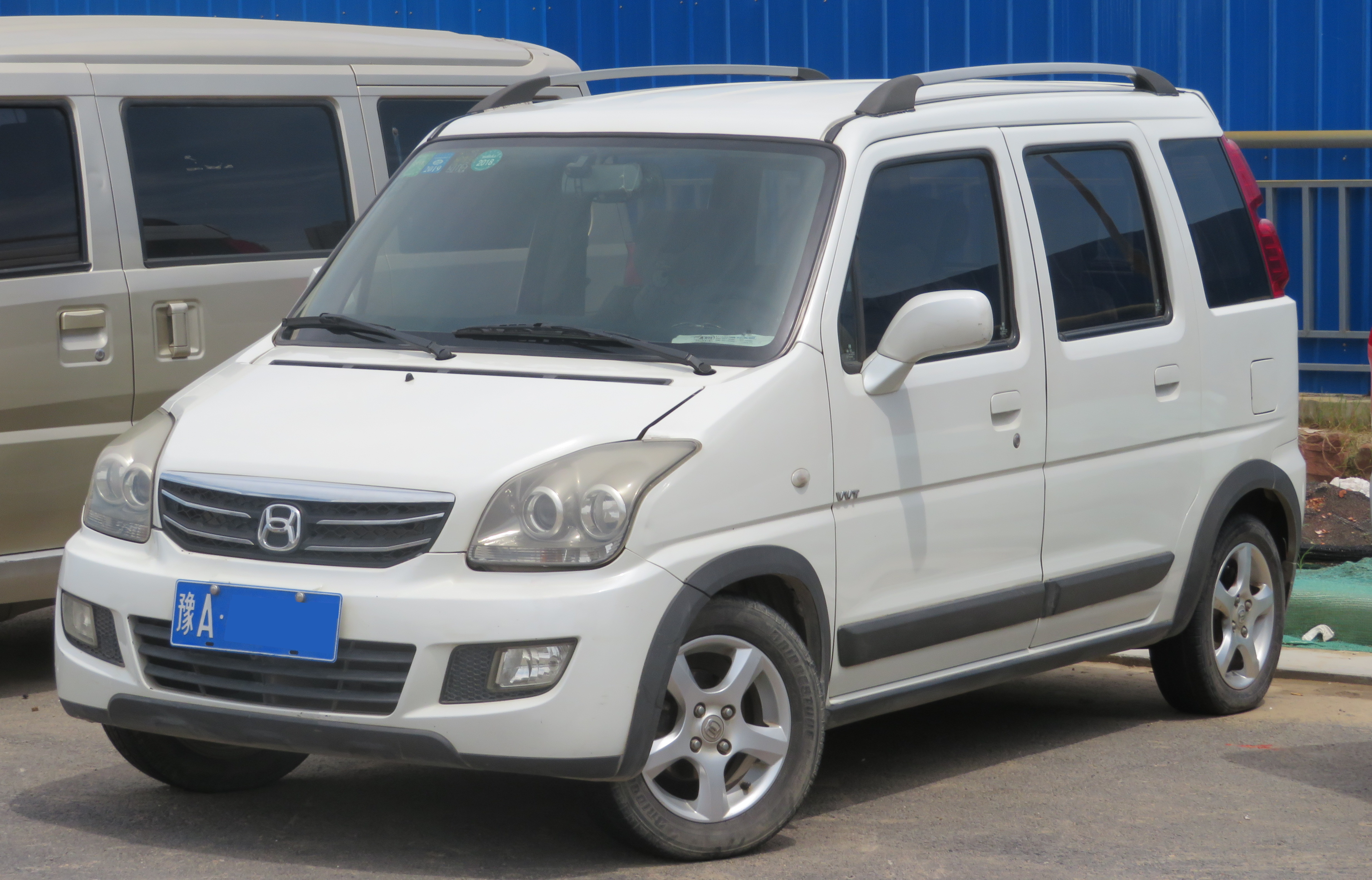 Photographed in Zhengzhou, Henan province, China